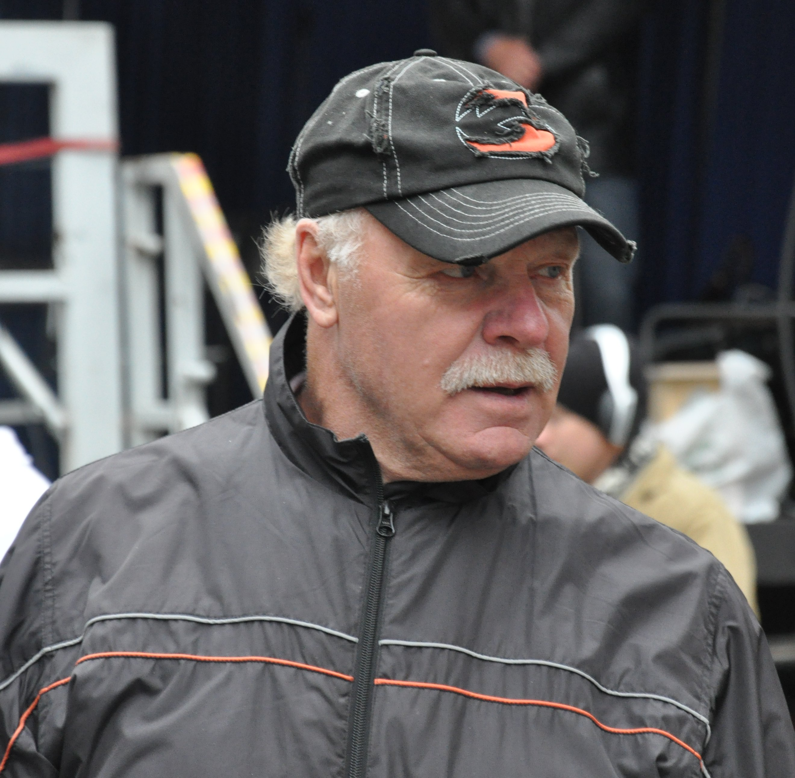 Finnish former paddler and strongman Ilkka Nummisto at Ville Itälä's birthday celebrations in Turku, Finland 2009.